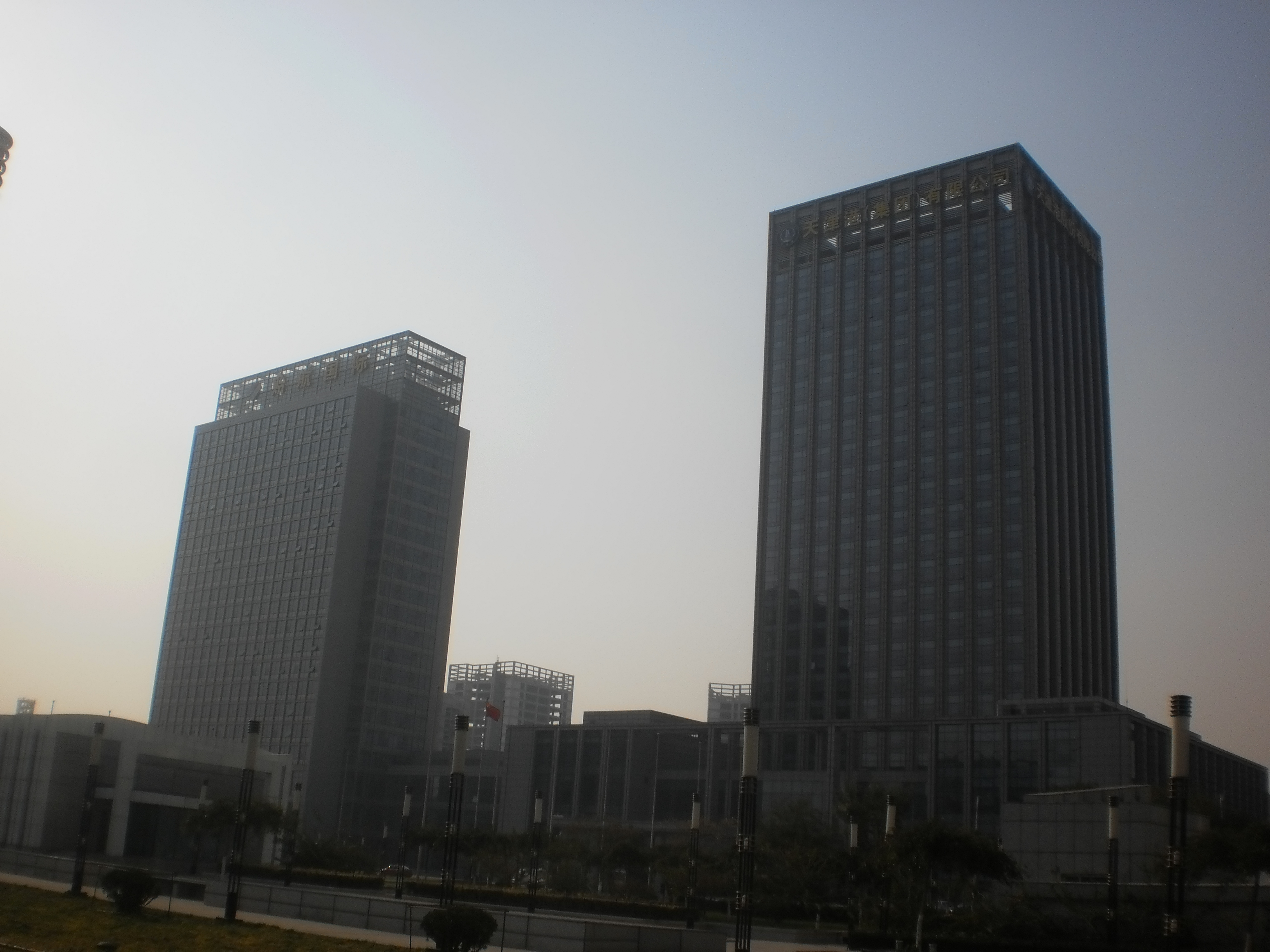 The TPG headquarter building at the west end of the Shipping Service Area in the Beijiang Port Area. It houses the main offices of the Tianjin Port Group, Tianjin Port Development and Tianjin Port Holdings company. The Yihang building right next door is still not complete (2011) and will house a variety of offices, not just TPG subsidiaries.